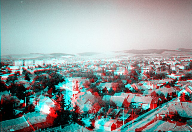 Stereo image of Târgu Mureş - Romania, for Red/Cyan Glassess (this image was made by me and released under public domain)